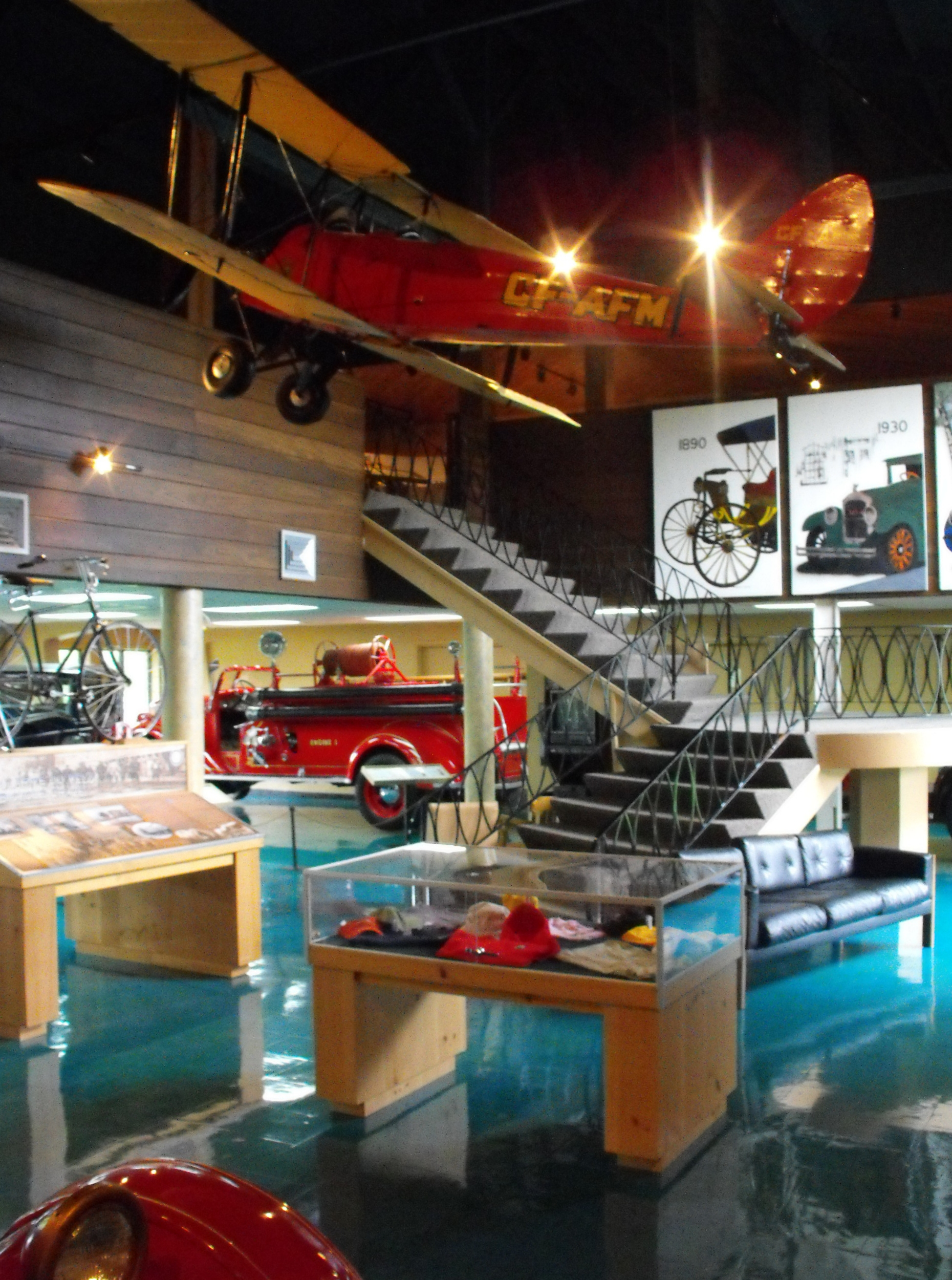 Interior of New Brunswick Car Museum, St. Jacques, Madawaska County, New Brunswick, Canada.